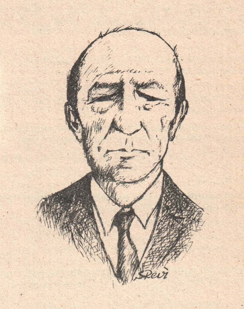 Portrait in drawing of Sadettin Dilbilgen, a Turkish philatelist, in a book by S. Üsküp